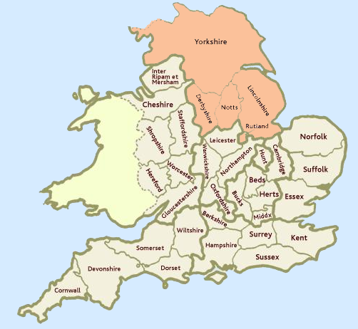 Counties of England in the year 1086, as documented in the Doomsday Book, after the Norman Conquest. Thee English counties were divided into several "circuits". This one features Yorkshire, Lincolnshire, Rutland, Derbyshire and Nottinghamshire. Note that Lancashire did not exist yet and the area was simply "Yorkshire" at this point; this is because Yorkshire was originally a succesor to the Viking Kingdom of Jorvik which covered a wide area.